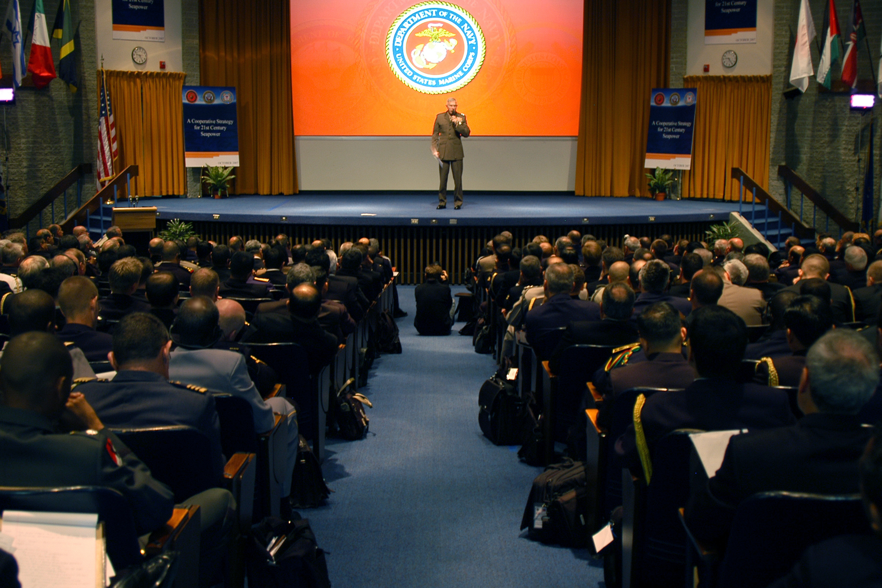 NEWPORT, R.I. (Oct. 17, 2007) – Commandant of the Marine Corps Gen. James Conway discusses the role of the Marines in the new maritime strategy entitled "A Cooperative Strategy for 21st Century Seapower," during the 18th International Seapower Symposium (ISS) at the Naval War College. More than 200 delegates representing 100 countries attended the largest ever ISS. U.S. Navy photo by Chief Mass Communication Specialist Greg Frazho (RELEASED)